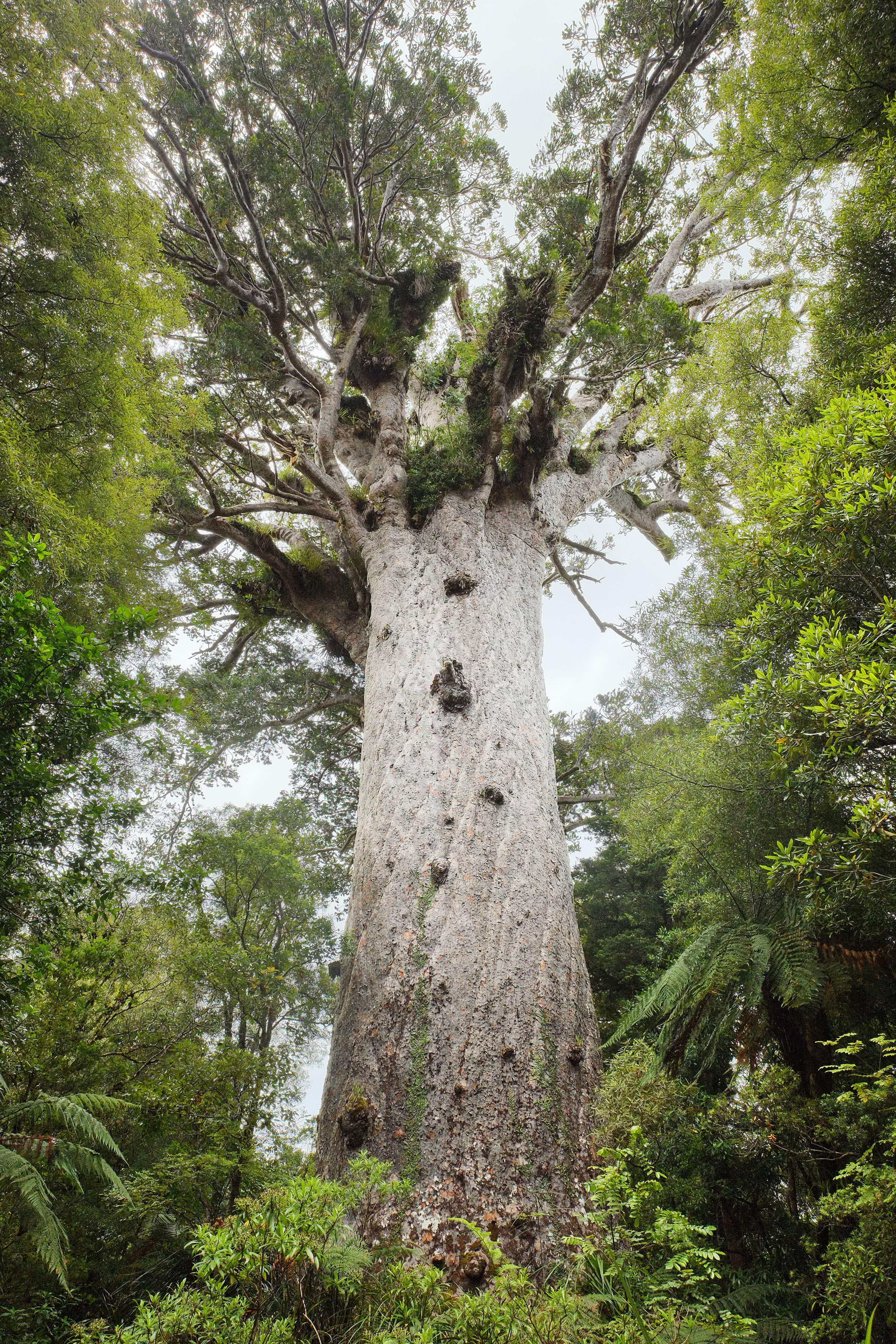 Tāne Mahuta - 'Lord of the Forest' - the trunk of over 4 metres (13 ft) in diameter is almost 18 metres (59 ft) tall, the overall height of the tree is over 51 metres (167 ft). This massive tree, the largest kauri in the world, contains about 517 cubic metres (18,300 cu ft) of wood.